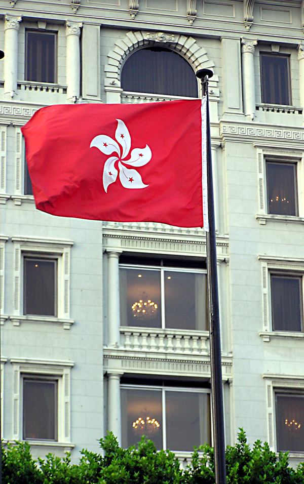 Flag of Hong Kong